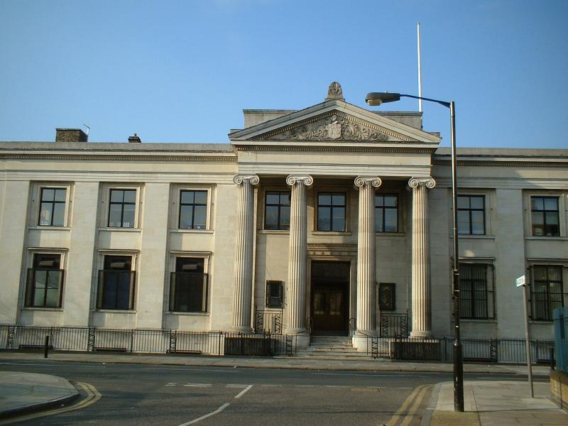 Town Hall of the former Metropolitan Borough of Bermondsey, 19 Spa Road. Bermondsey, Southwark, London SE16. Taken by C Ford, 6th March 04.